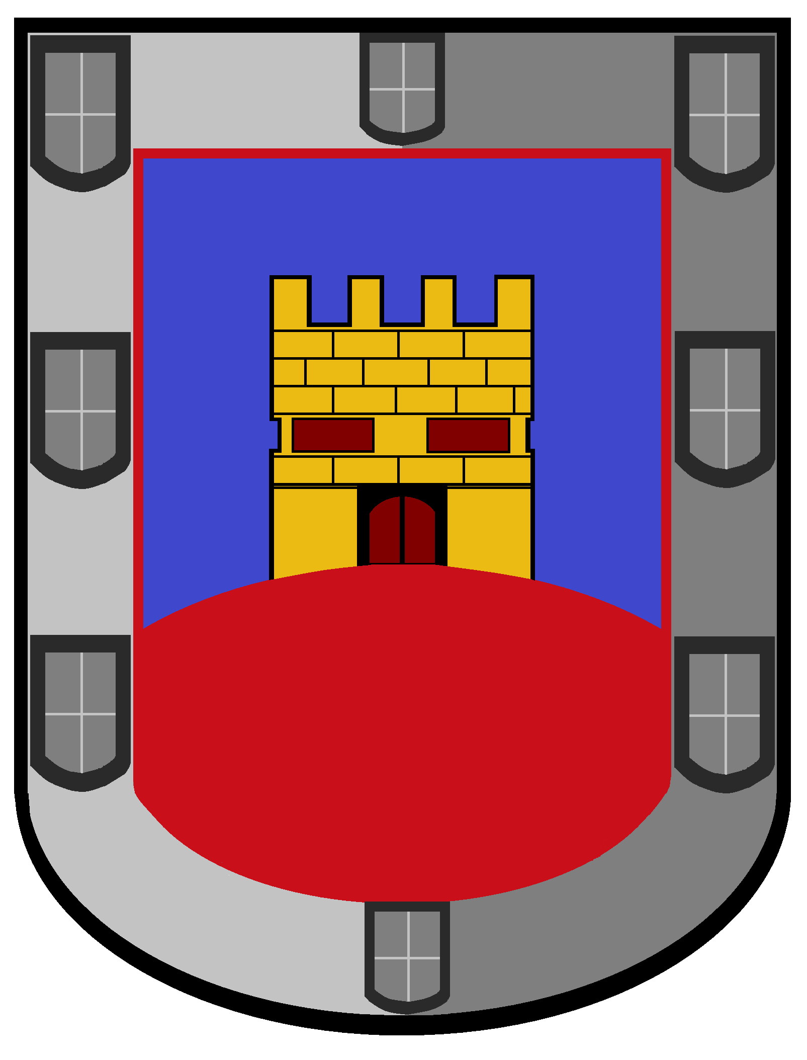 Personal reconstruction of the shield used by the Montpalau, Counts of Xestalgar, acording to a drawing from the 17th century. (My drawing could be corrected and vectorized). I would be grateful.